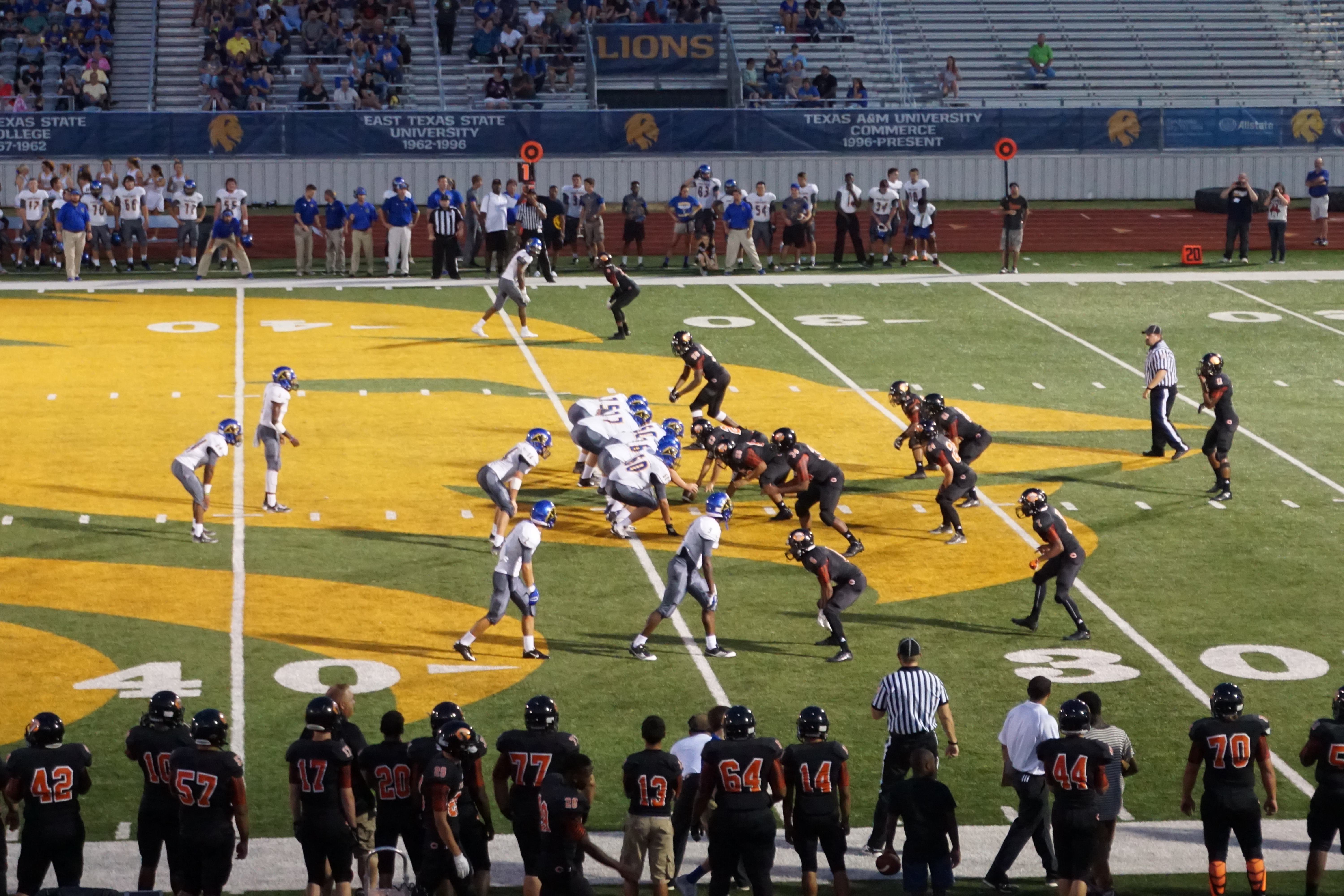 North Lamar on offense during the North Lamar Panthers vs. Commerce Tigers high school football game at Memorial Stadium in Commerce, Texas (United States). North Lamar won 48–25.